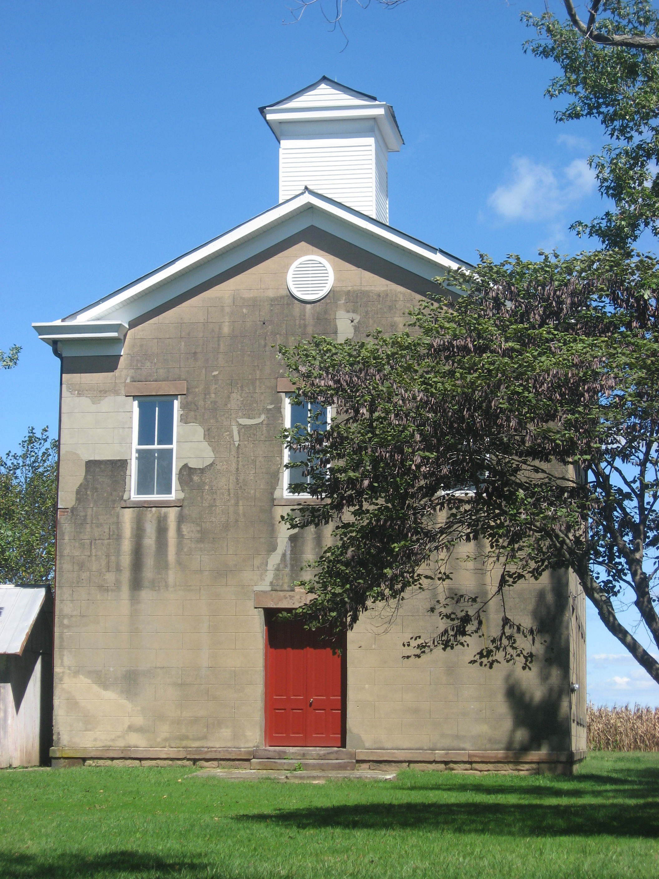 Front of the former Shiloh College, located at 13043 E. Walnut Street in Shiloh Hill, Illinois, United States. Built in 1881, it is listed on the National Register of Historic Places.